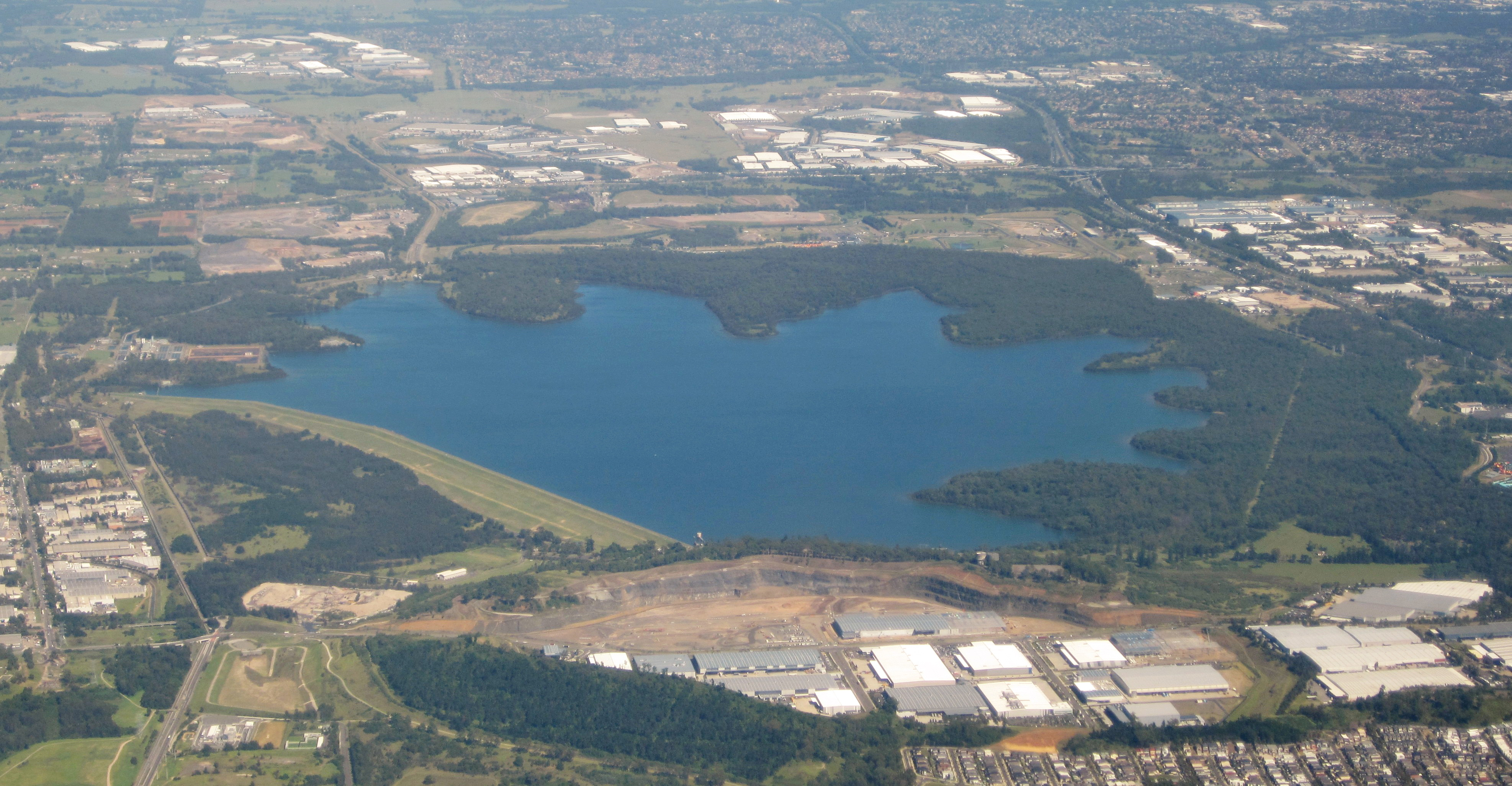 Aerial view of Prospect Reservoir.